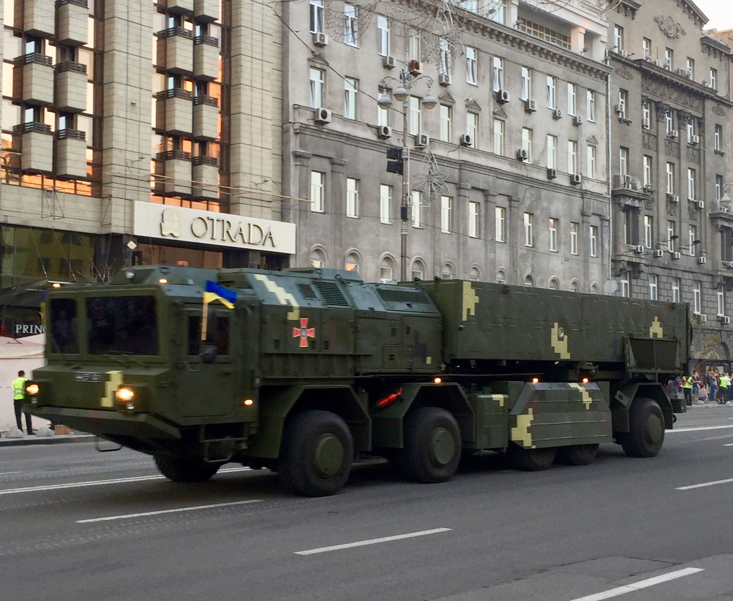 Sapsan (Ukrainian: «Оперативно-тактичний ракетний комплекс «Сапсан») is Ukrainian perspective mobile short-range ballistic missile system being developed by Yuzhnoye Design Office and A.M. Makarov Southern Machine-Building Plant.